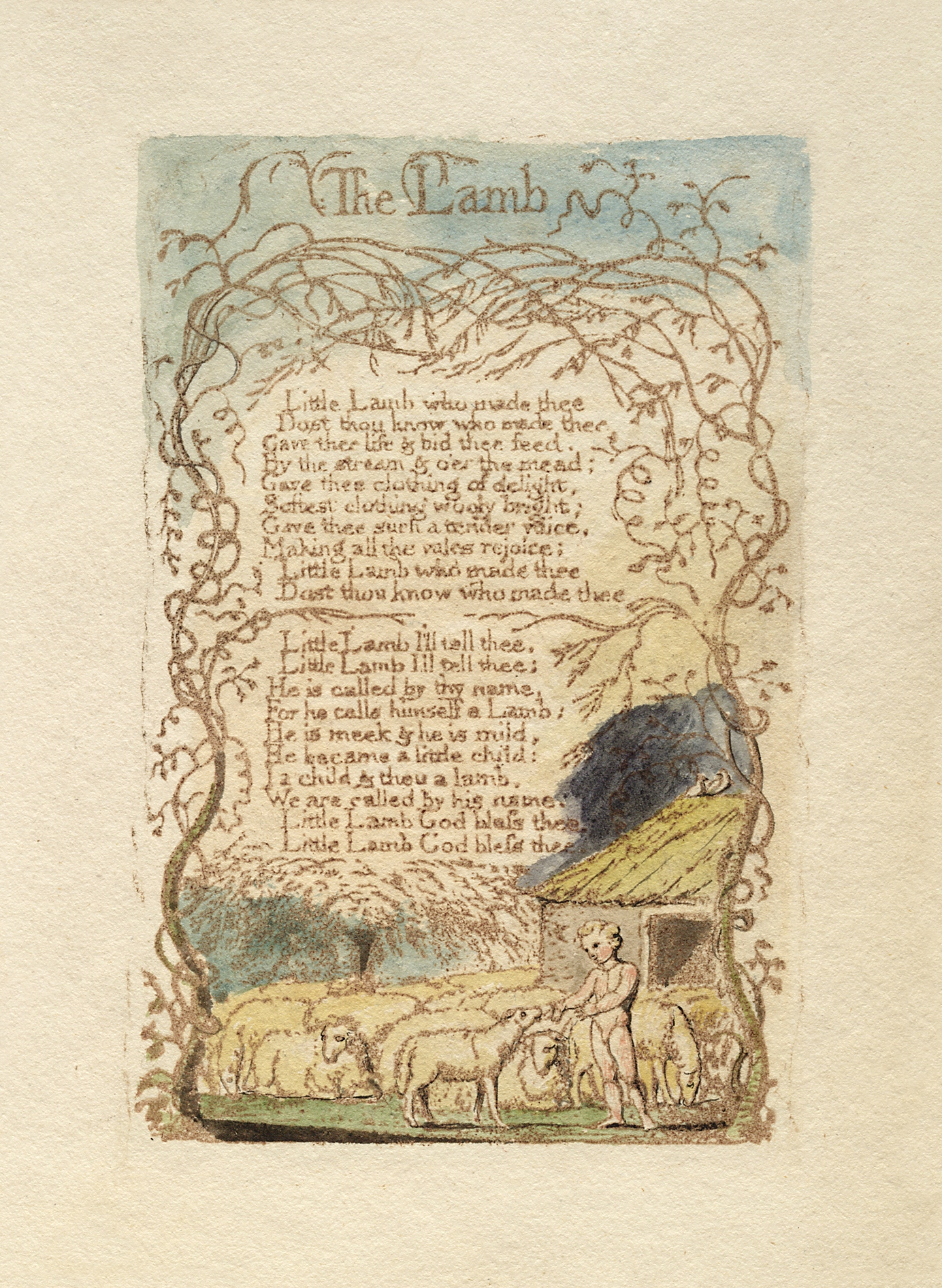 "The Lamb", from Songs of Innocence and of Experience, Shewing the Two Contrary States of the Human Soul. [London, W. Blake, 1794] 54 plates. col. ill. 19 cm. Library of Congress reference: Rosenwald 1801 I did some minor fixes to shadows on the outer paper, but did not touch the illustration itself.